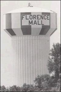 View of the old Florence Mall water tower before the "M" was change to a "Y" apostrophe in 1974 to read: Florence Y'all